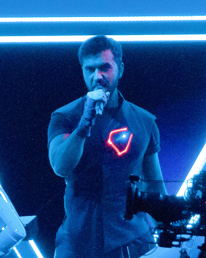 At the 2019 Eurovision Song Contest Semi-final 2 dress rehearsal